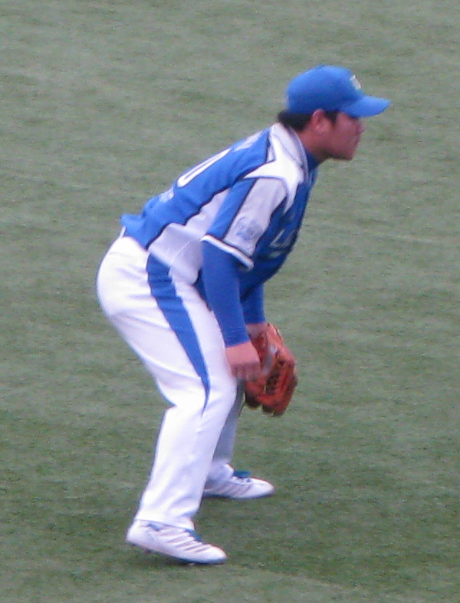 Takeya Nakamura, infielder of the Saitama Seibu Lions, at Seibu Dome.